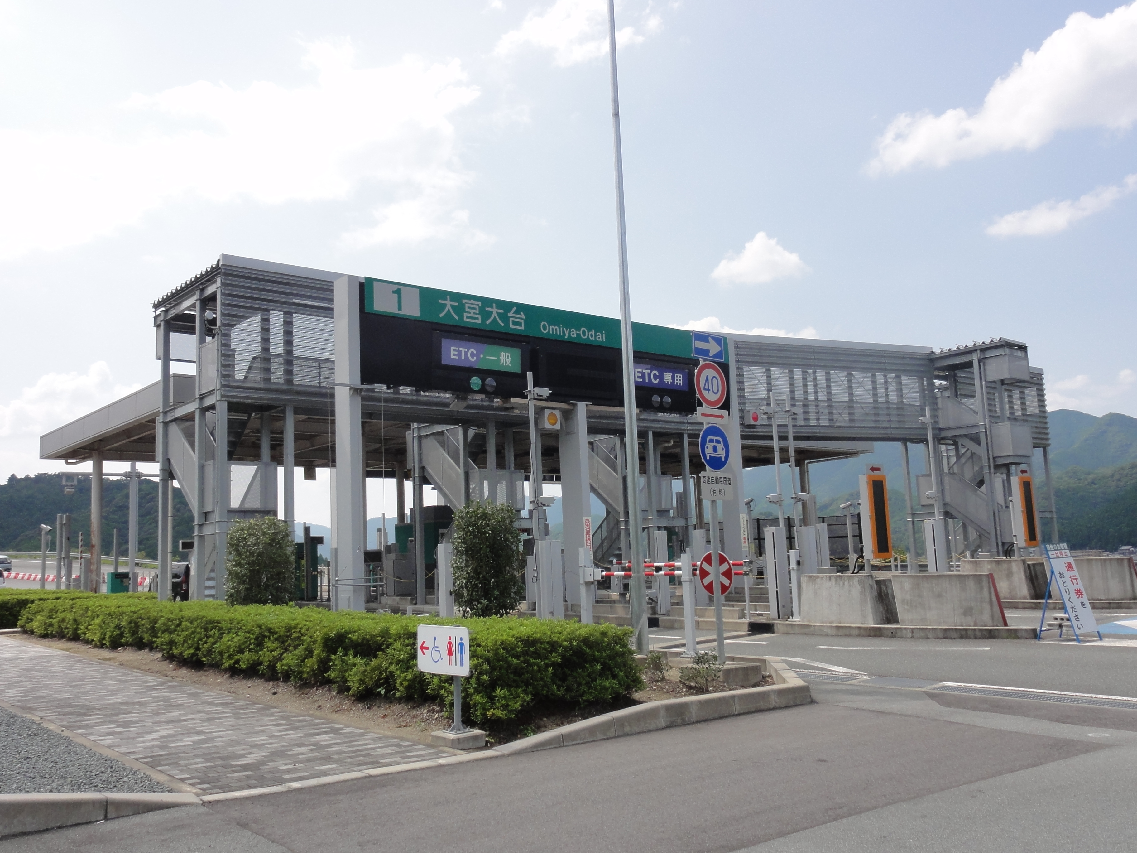 Omiya-Odai Interchange of Kisei Expressway, Mie pref.,Japan